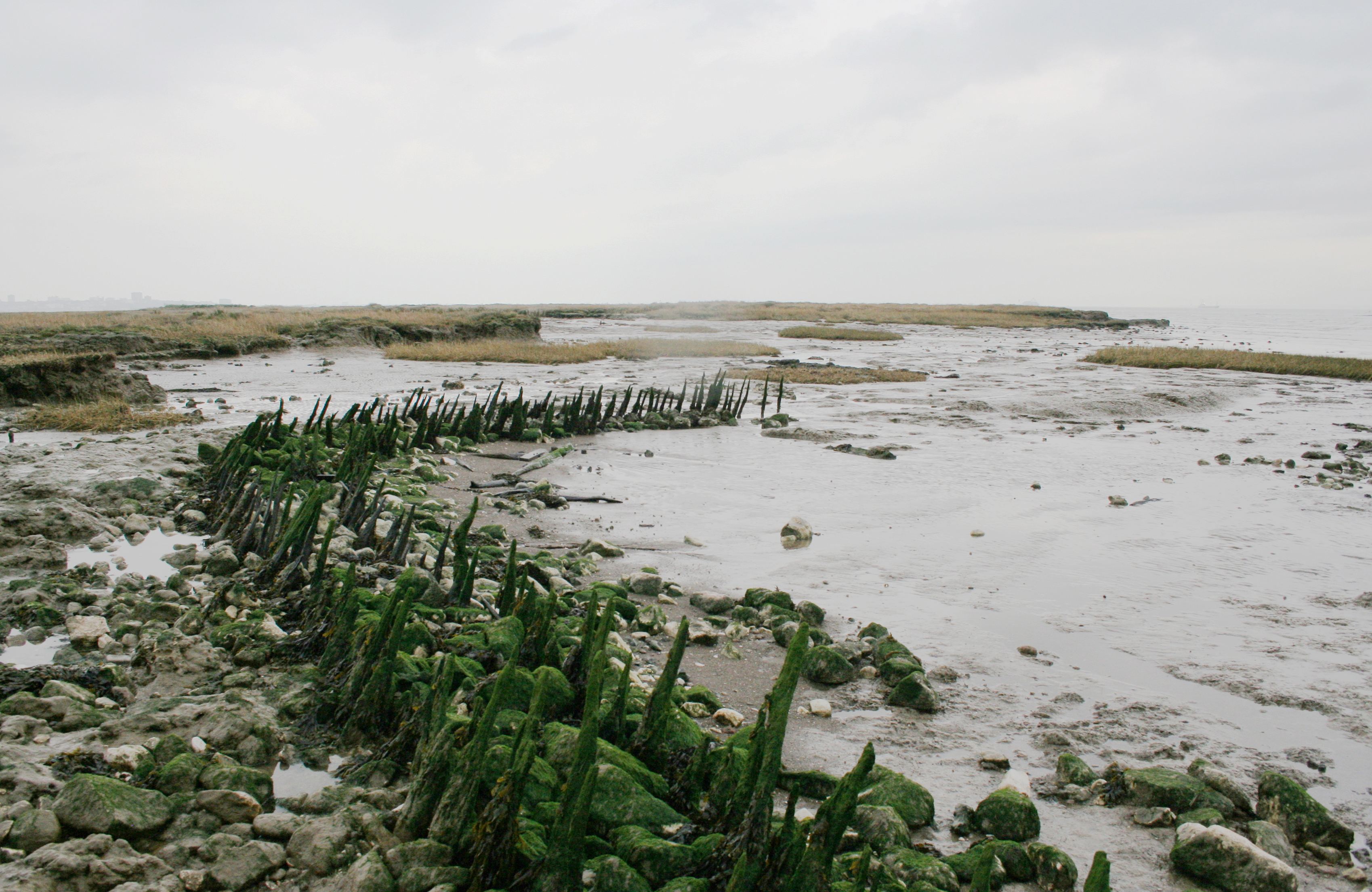 The stakes, chalk, and ragstone remains of Canvey's first seawall built in 1623.